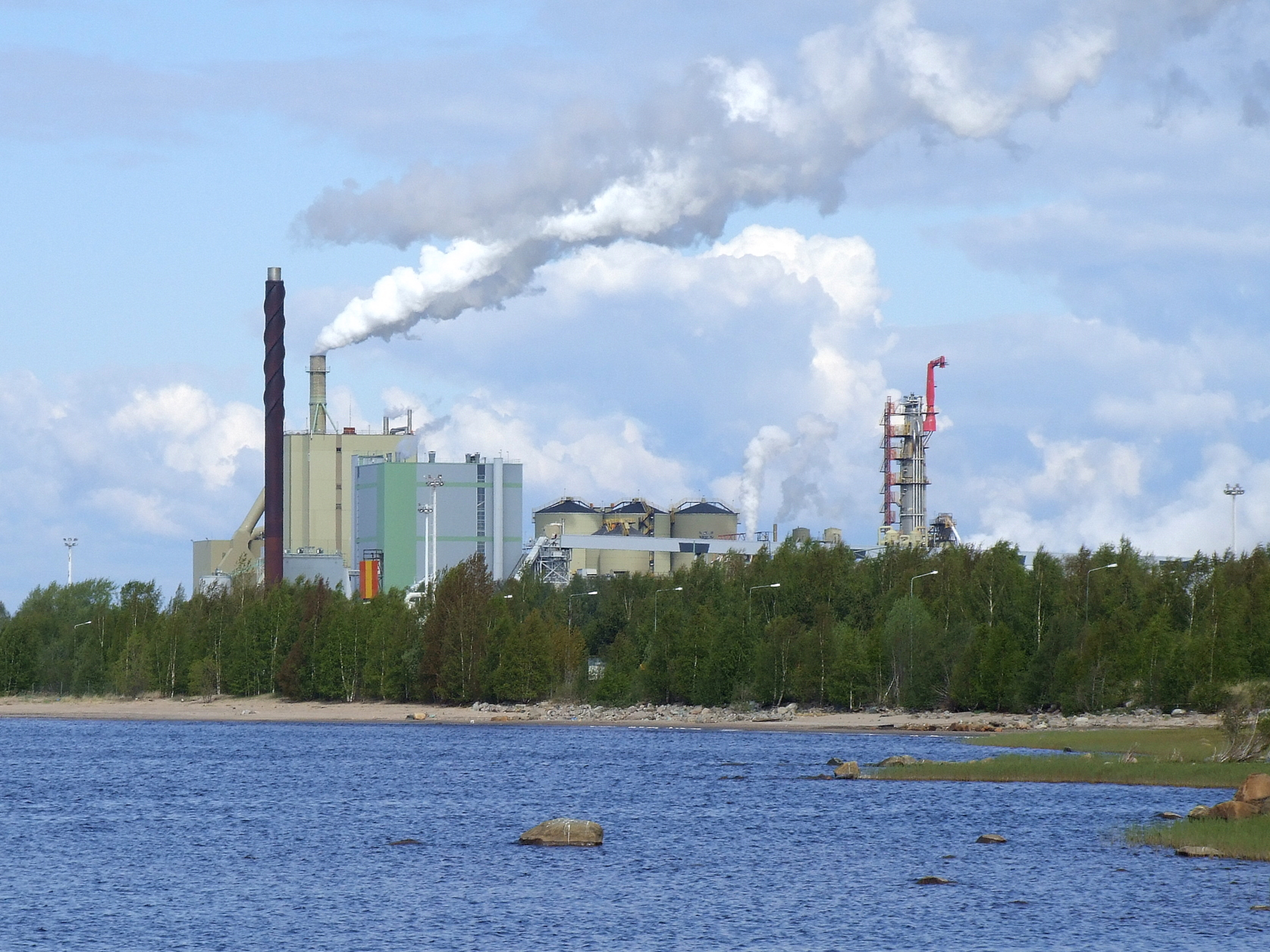 Stora Enso pulp and paper mill in Veitsiluoto, Kemi, Finland